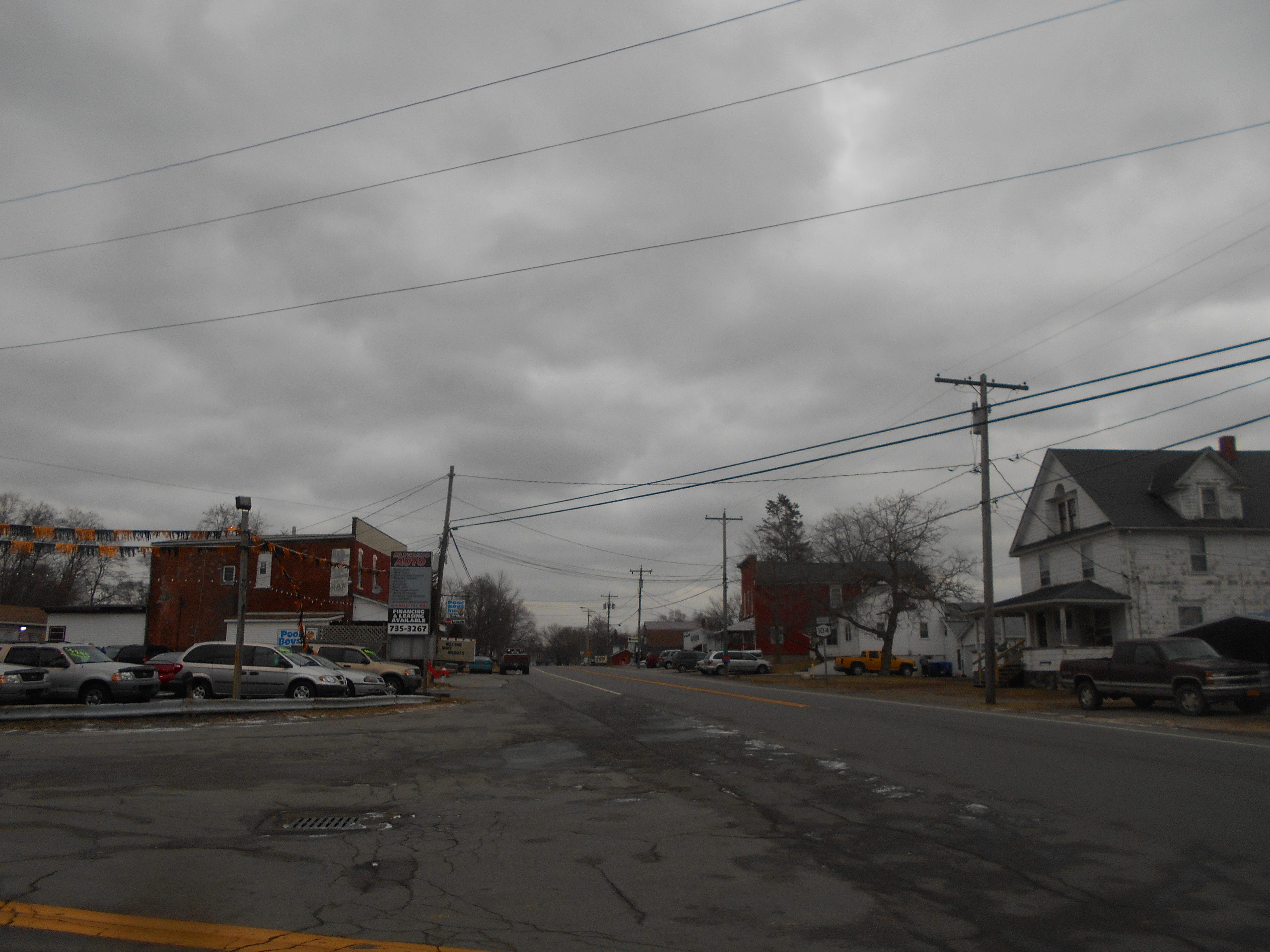 New York State Route 104 in Hartland's hamlet of Johnson Creek, New York.